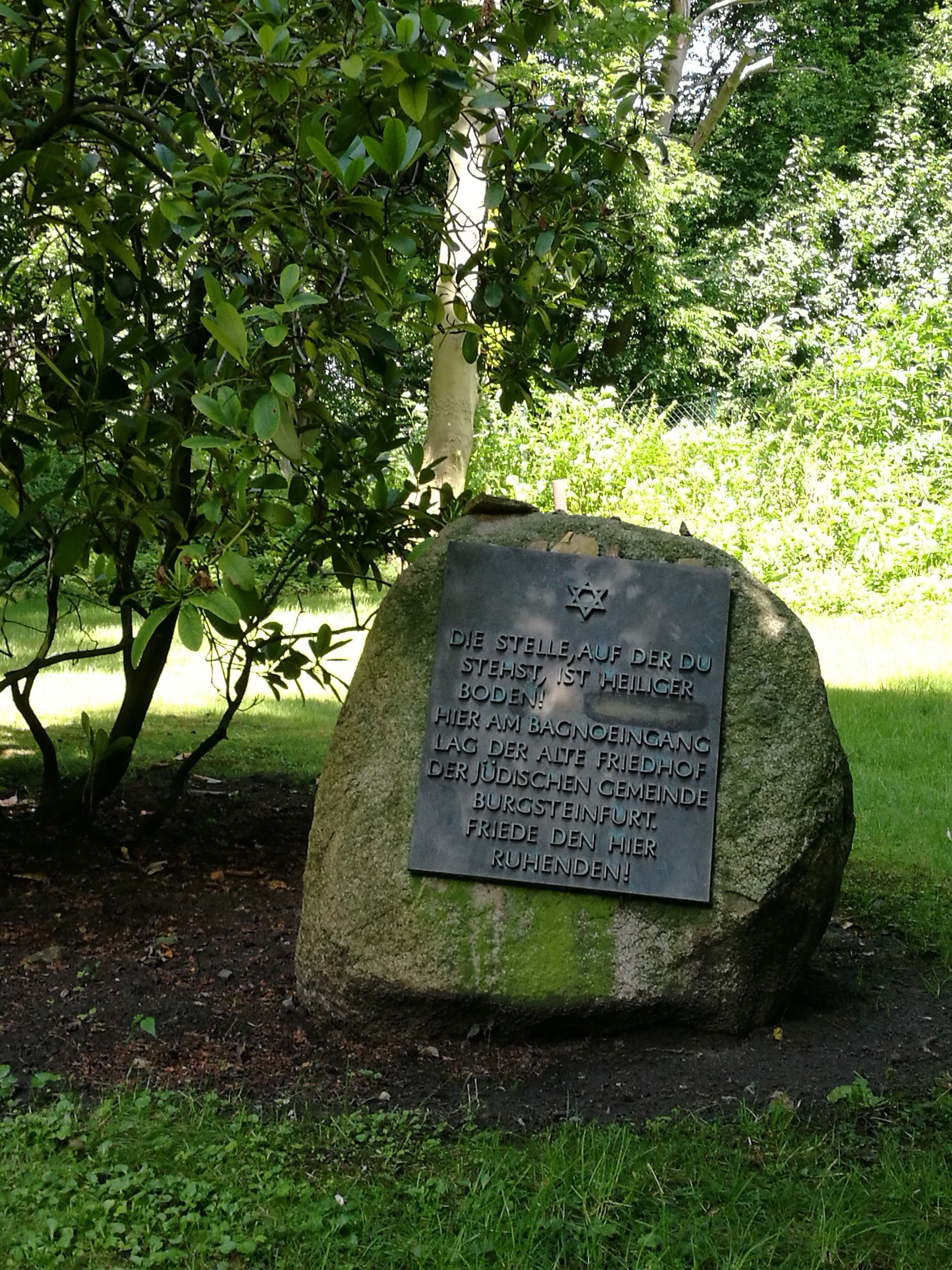 Old fewish cemetery Burgsteinfurt, Germany